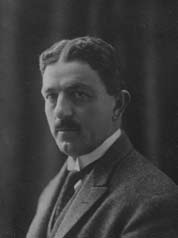 Hüseyin Rauf Bey